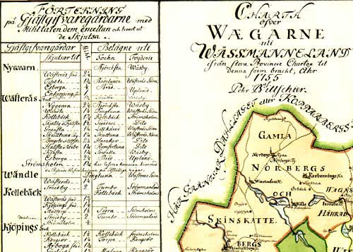 A roadmap over the county of Västmanland in Sweden